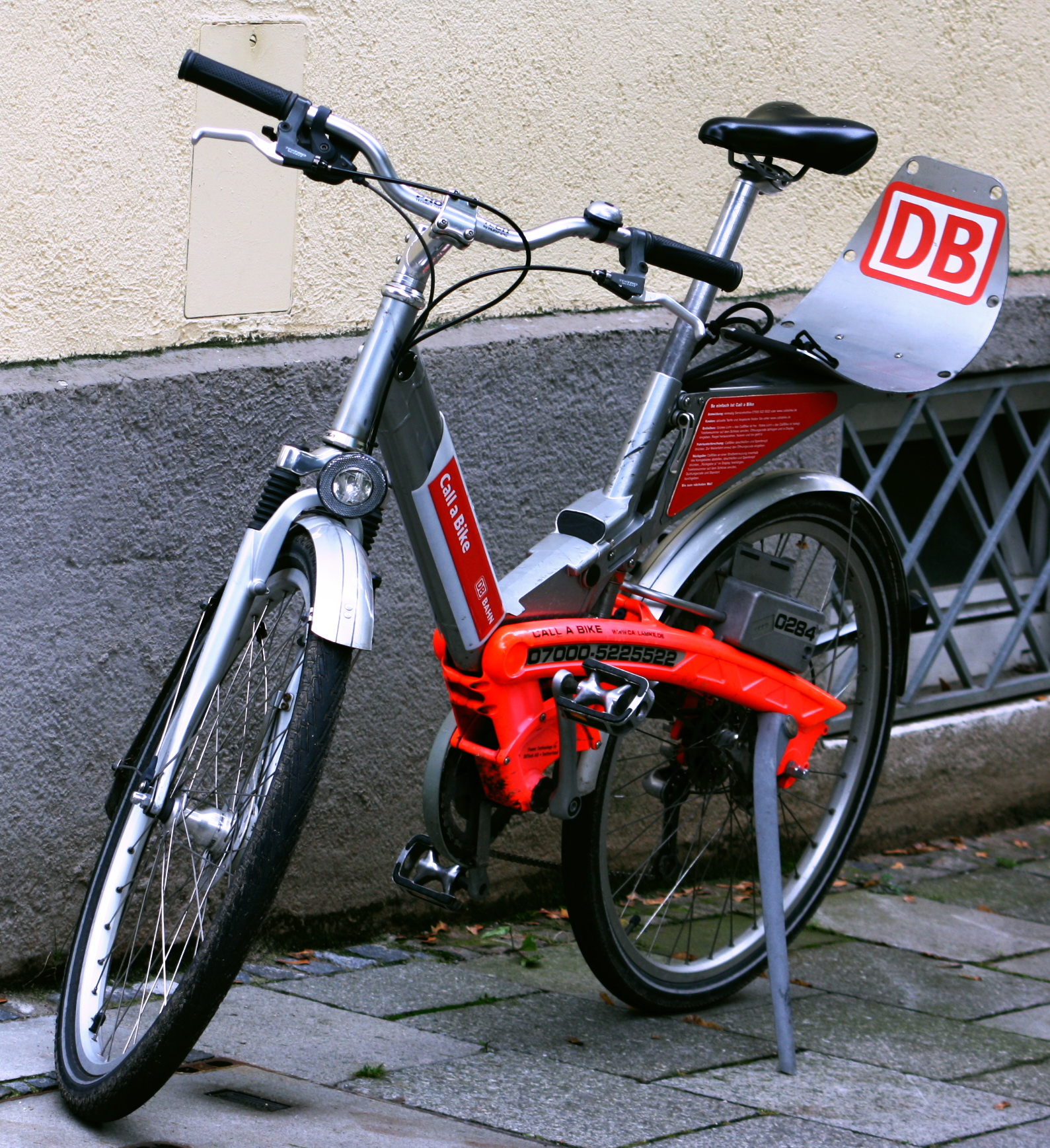 Rent bycicle in Munich.